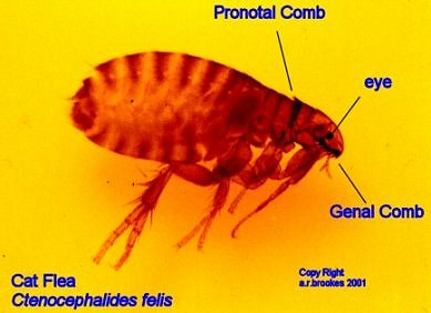 This photo was taken by Andy Brookes BS (Biology), FRES using an Olympus 30 Camera, optical microscope with camera attachment. The photo was taken inside the Natural History Museum, London, using a prepared slide of a cat flea, which had been subjected to potassium hydroxide and cleared in xylene, supplied by the Natural History Museum with their permission and the understanding that Andy Brookes would hold the copyright to the photo.